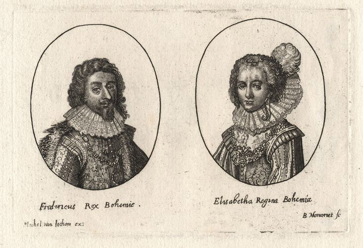 Frederick V, Elector Palatine and Elizabeth of Bohemia. 3 3/4 in. x 5 3/4 in. (95 mm x 145 mm) plate size; 4 3/4 in. x 6 3/8 in. (120 mm x 161 mm) paper size